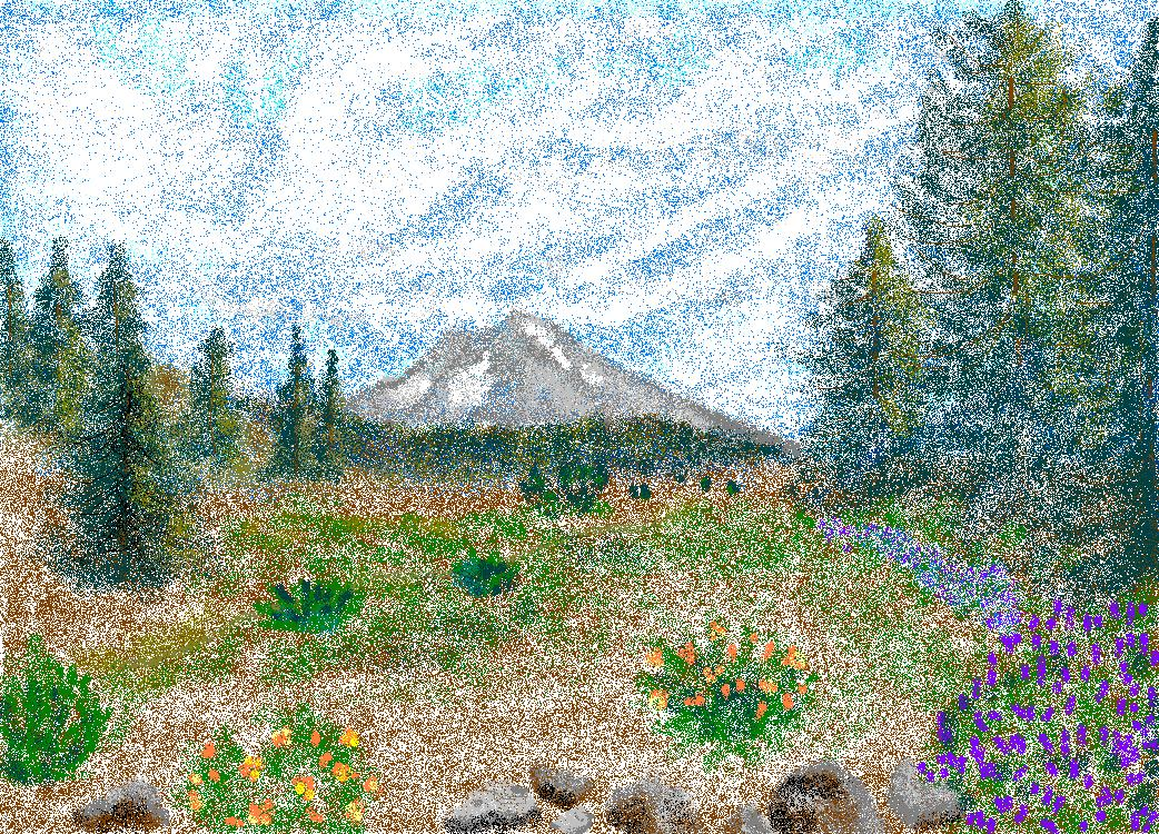 A Paint artwork.